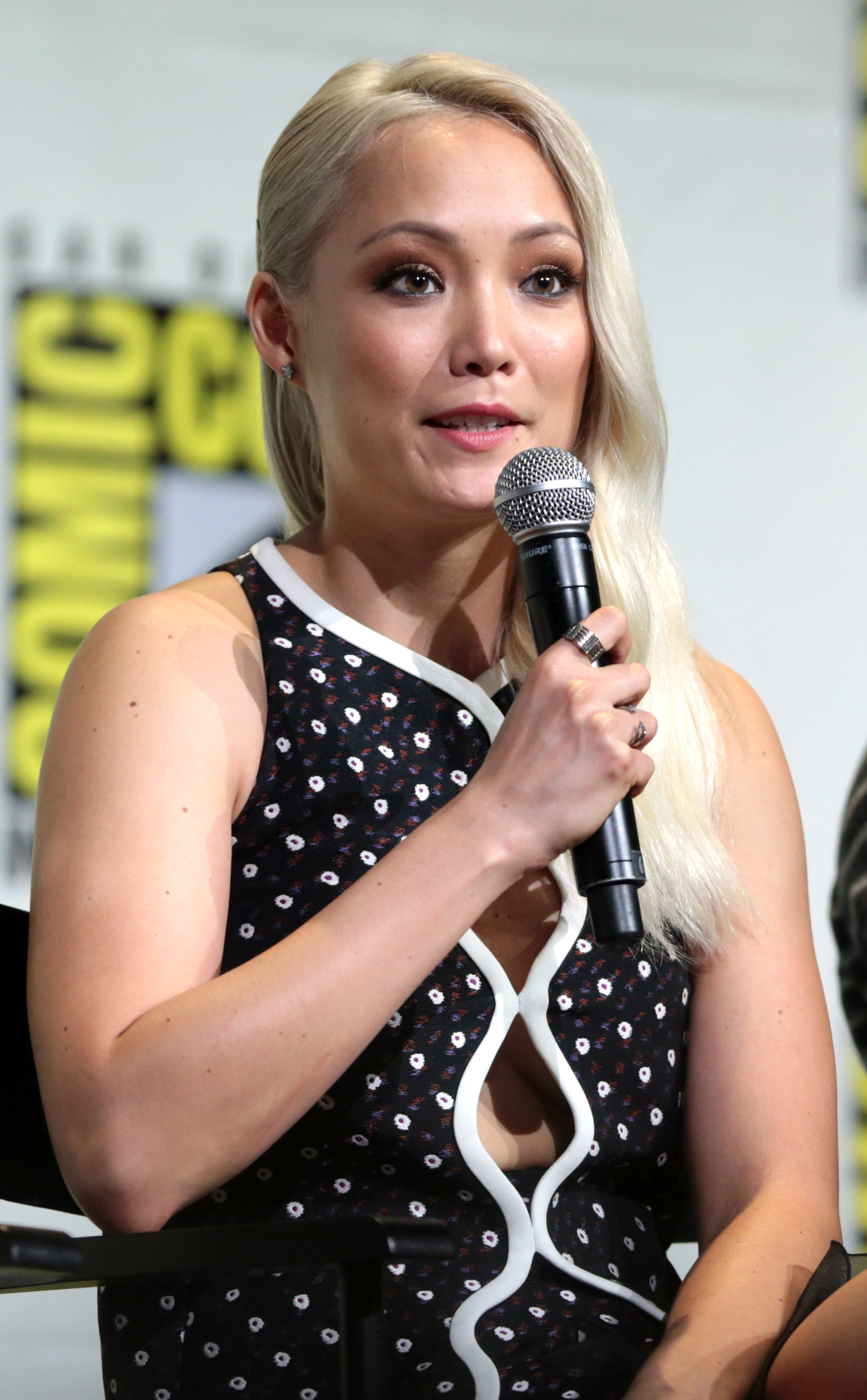 Pom Klementieff speaking at the 2016 San Diego Comic-Con International in San Diego, California.